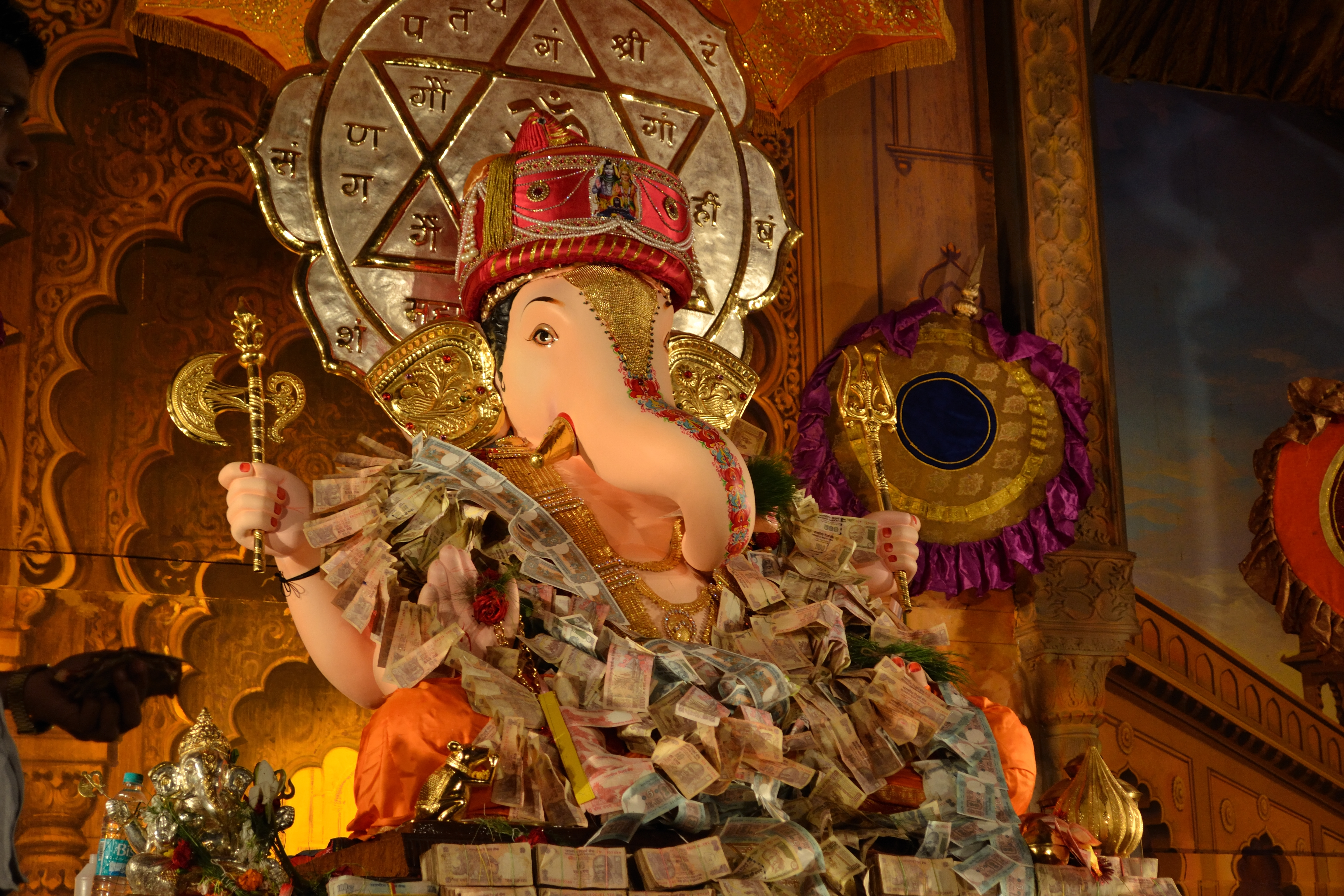 Ganpati Festival,Pune.